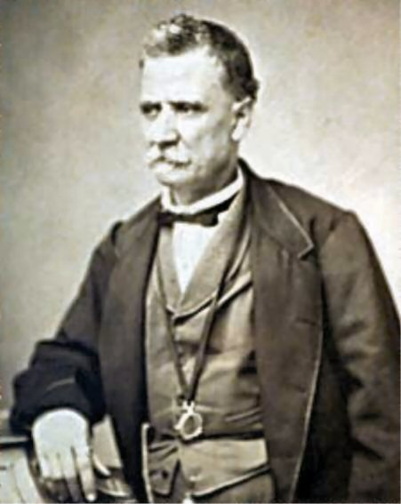 Alèxandros Koumoundoùros - Athens, Photographic Archive of Hellenic Literary and Historical